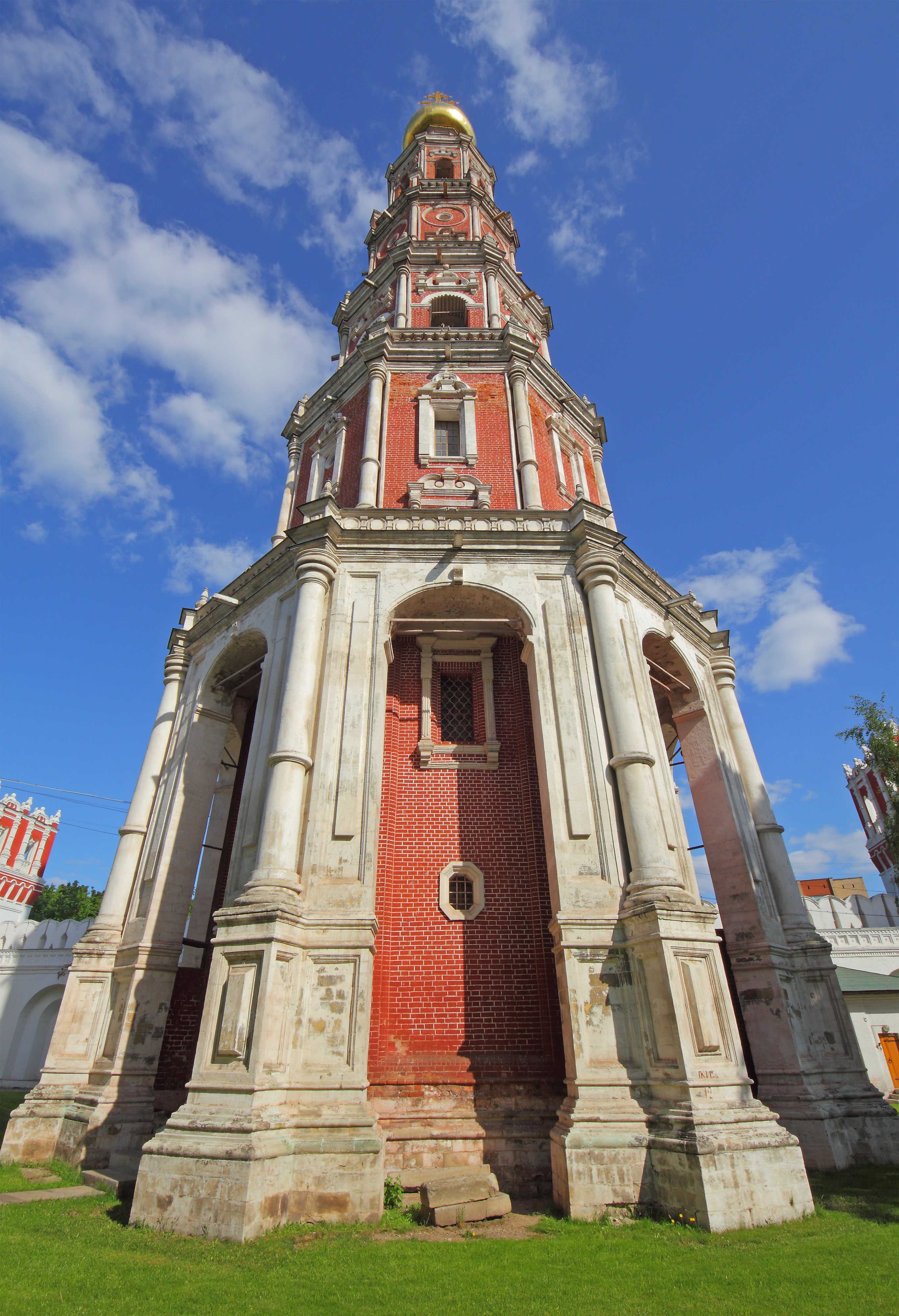 Moscow, Russia. Novodevichy Convent. Bell Tower.